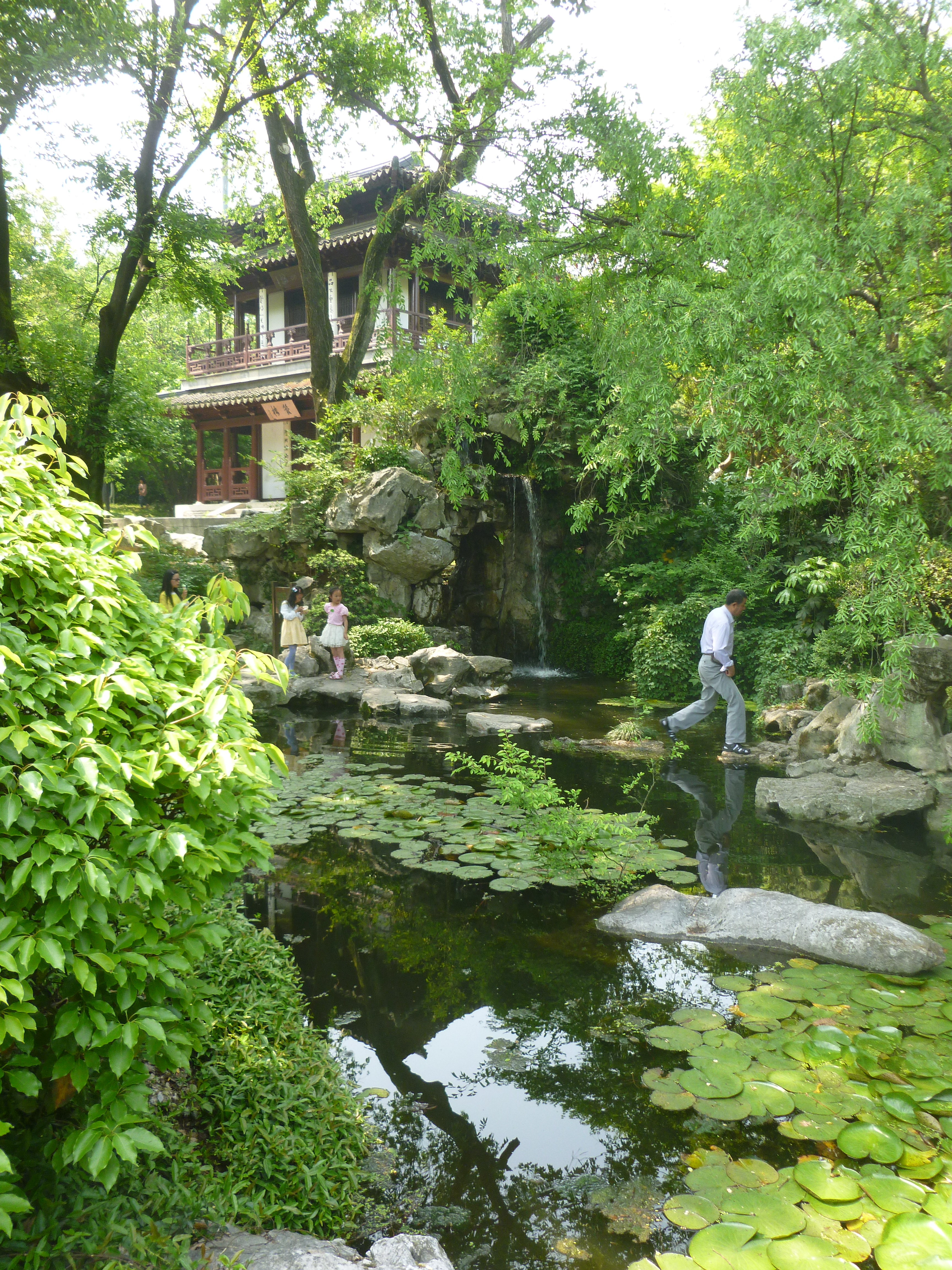 A man-made waterfall in Lotus Garden, Huzhou, Zhejiang province, China